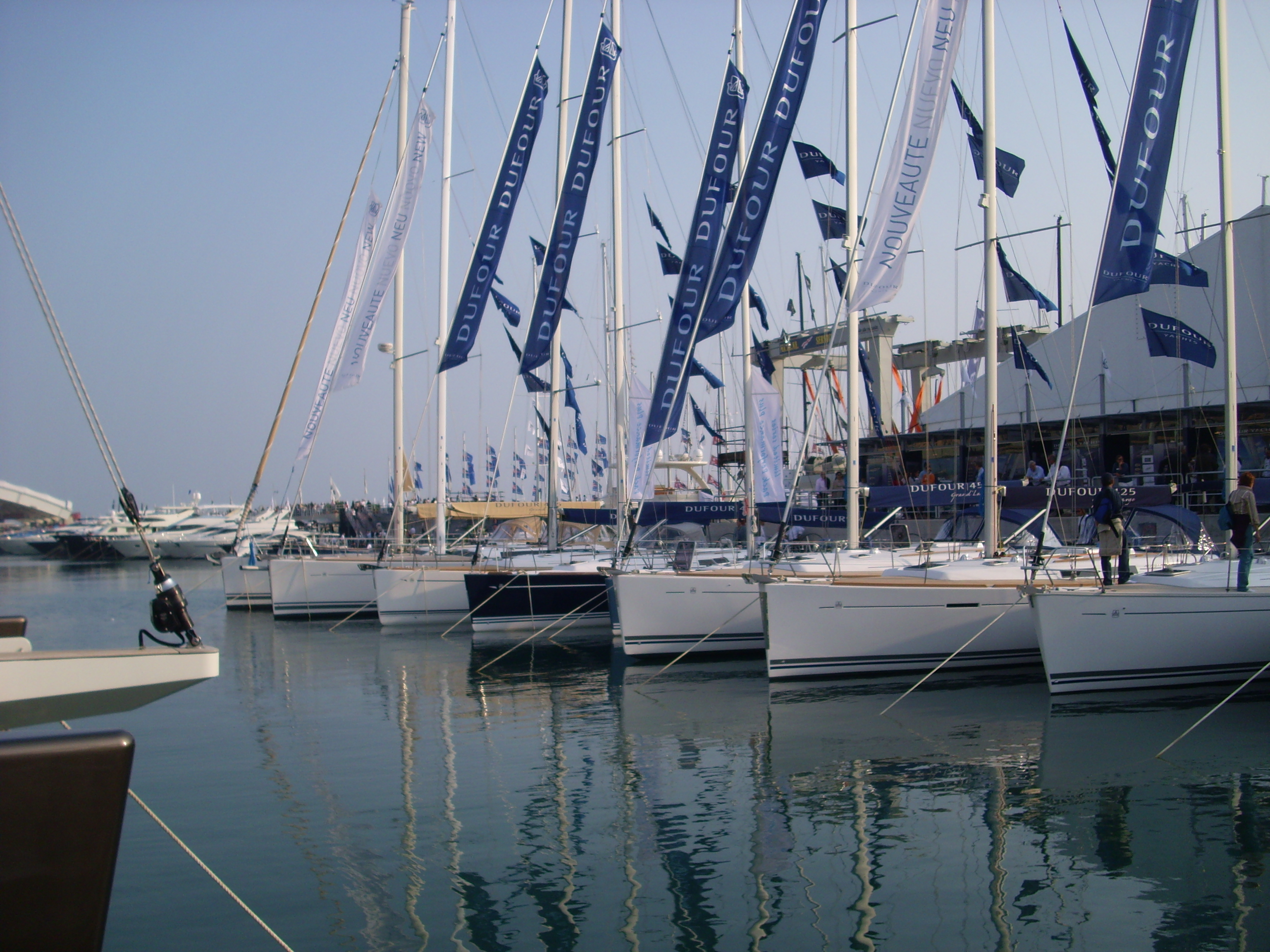 47 international boat exibition, Genova, Italy